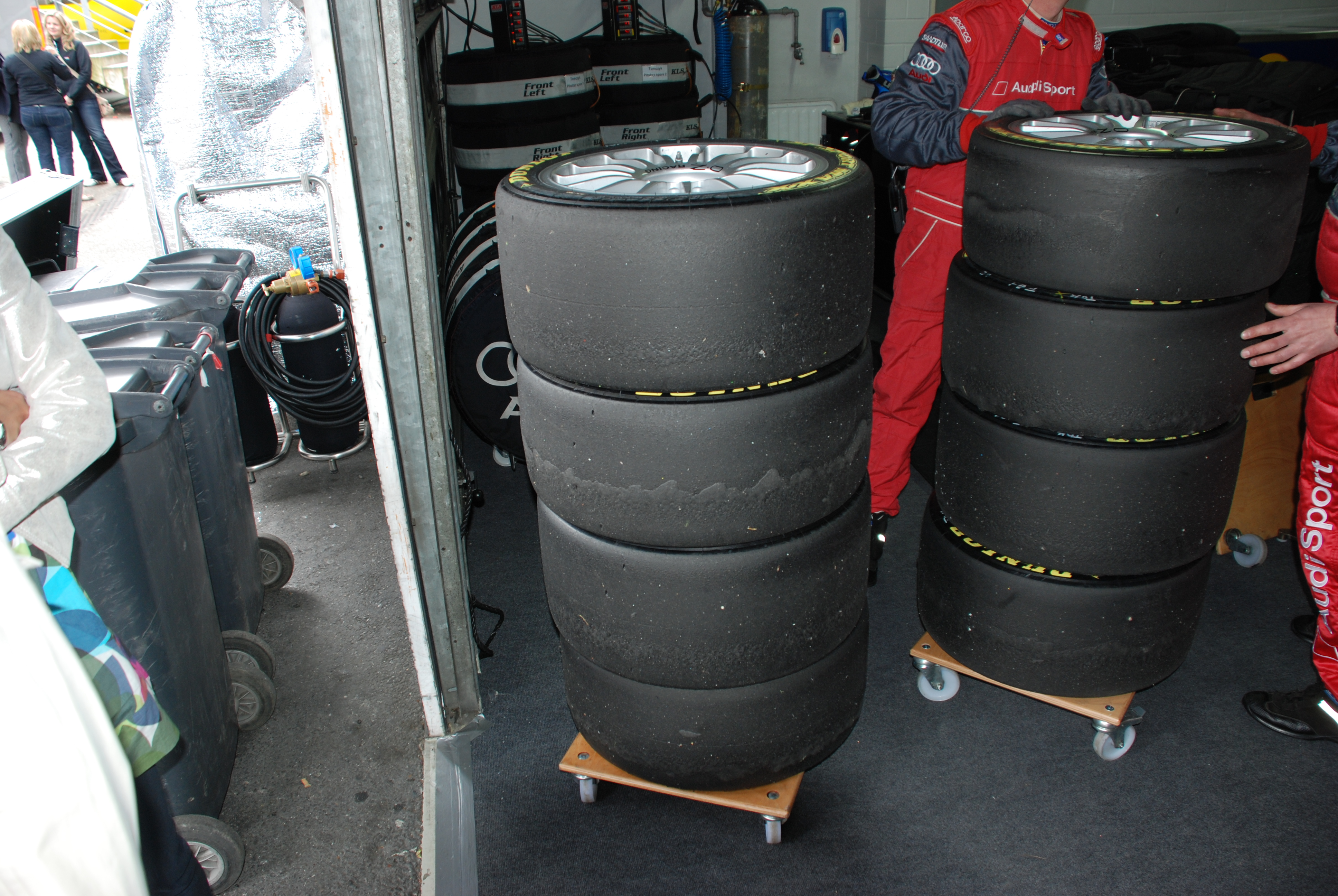 Slicks